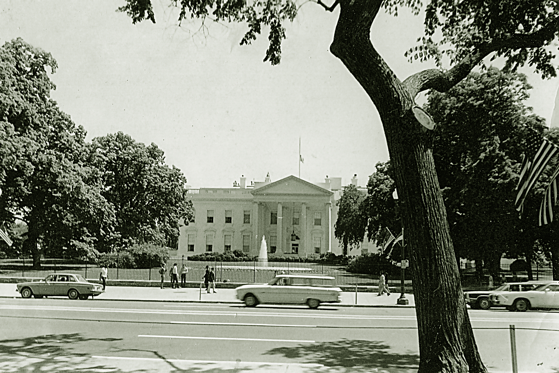 White_House.Washington. As seen from 16th St.NW